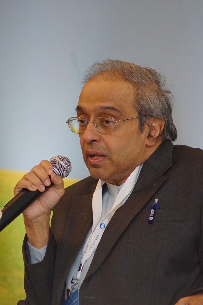 Preventing World War Through Global Solidarity: 100 Years On